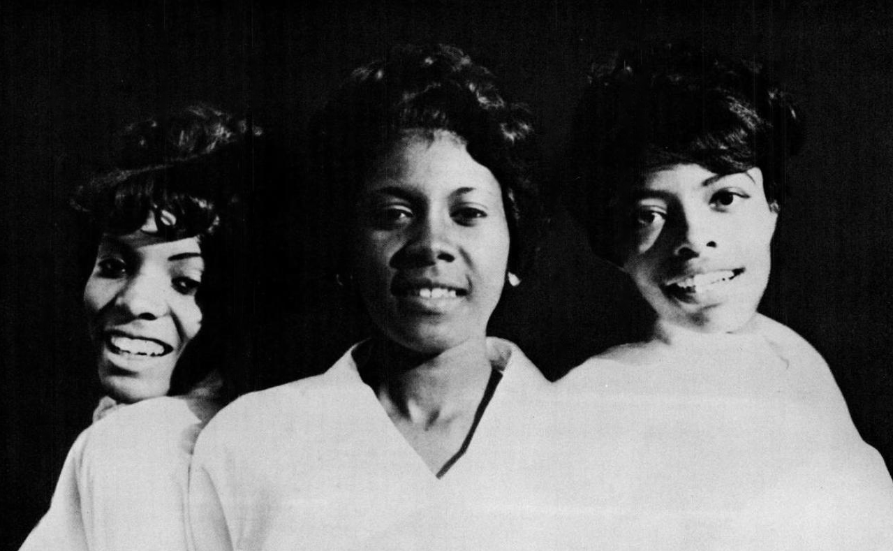 Trade ad for The Poppies's single "He's Ready".To better adapt it to his respective Wikipedia article, the ad was cropped and cleaned in a graphics editing program. The original can be viewed at the source below.